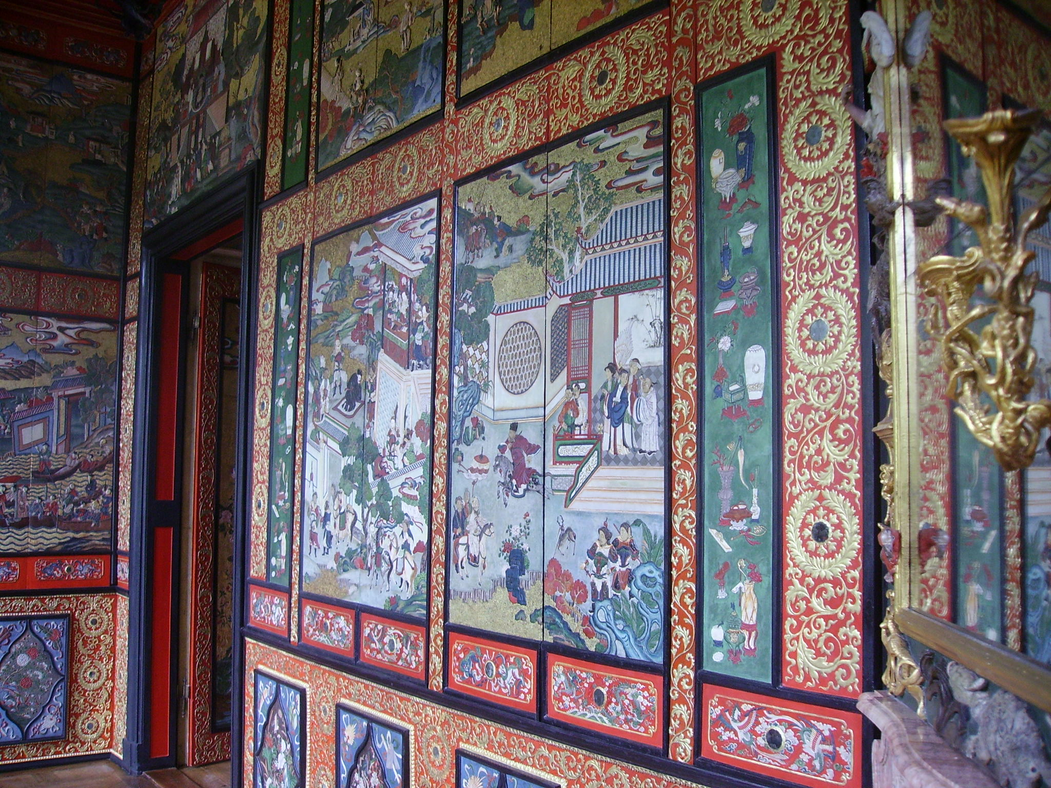 Japanese Cabinet of the Old Palace of the Hermitage, Bayreuth